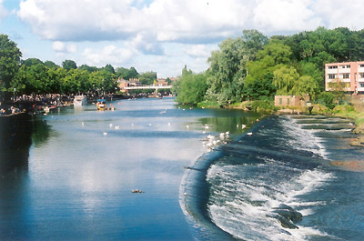 River Dee, Chester, England Photo' by Wikityke.